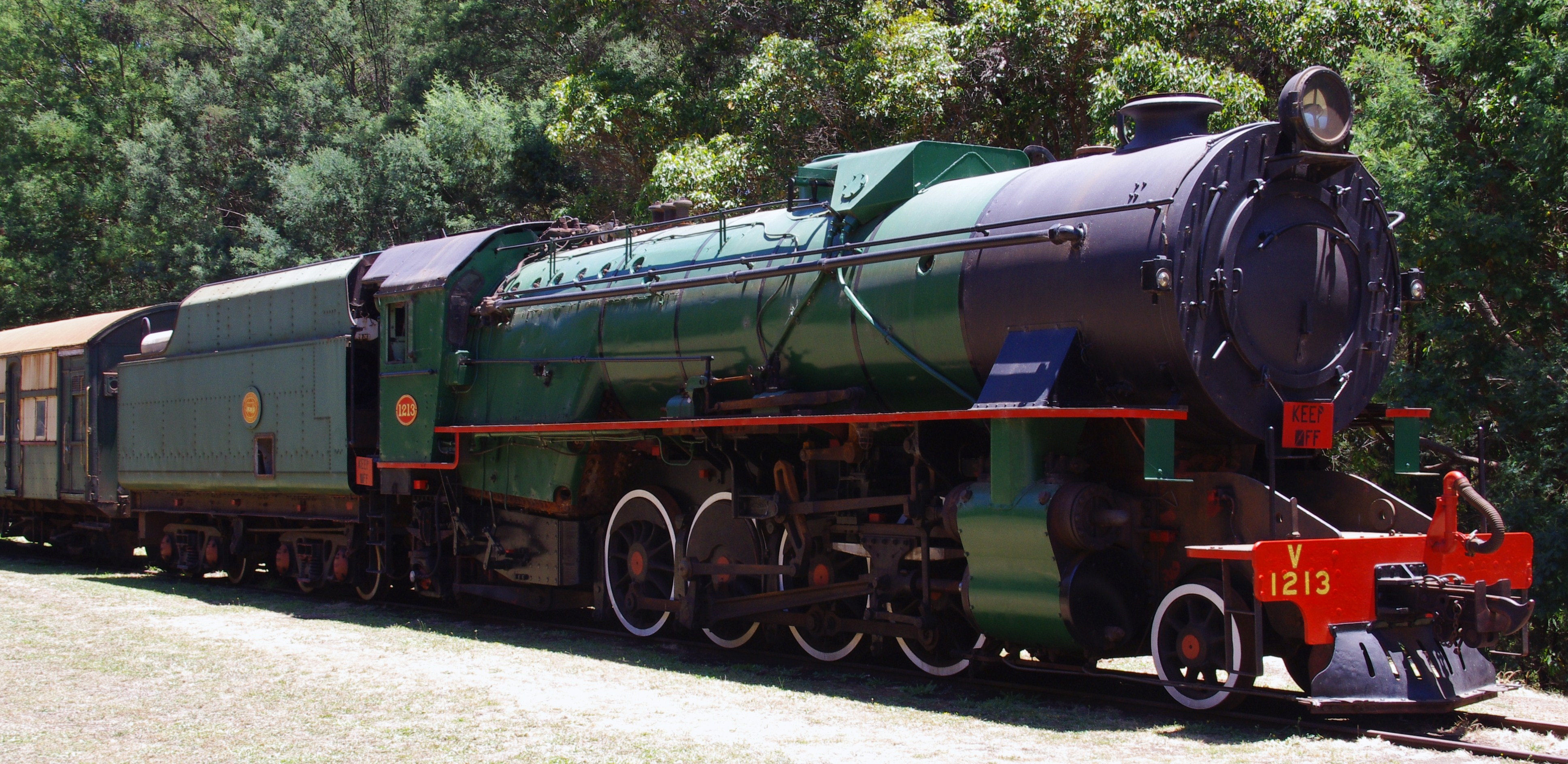 WAGR V class locomotive V1213, preserved at Pemberton railway station, Western Australia